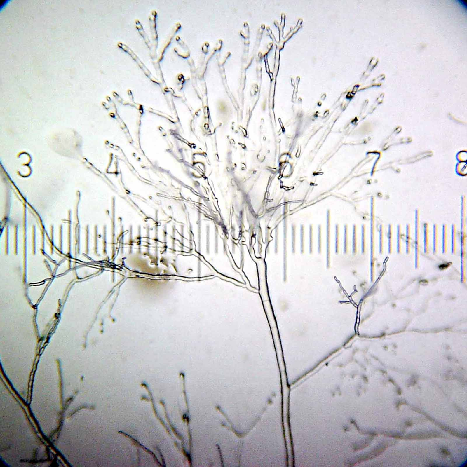 Early growth of mold from a bird dropping in EasyGel media in a Petri dish. At this point, all there is is the mycelium, and not the conidiophores that most people would recognize as “mold”. This eventually grew into a very impressive, fluffy white mold that filled the whole dish. 5× objective, 15× eyepiece; the numbered ticks are 230 µM apart. The scale of the full-sized version of this image is such that each pixel represents a 0.767 µM square.